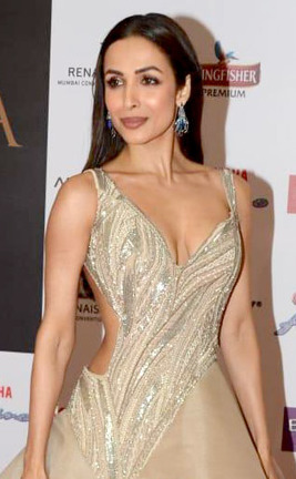 Malaika Arora graces Miss Diva 2018